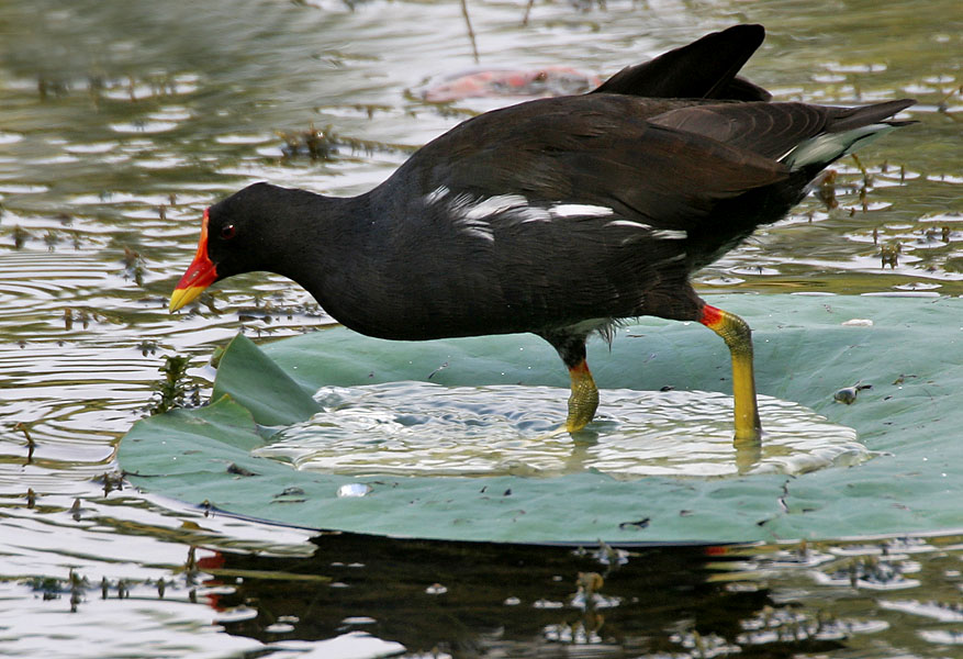 Common Moorhen Gallinula chloropus in a Nelumbo nucifera Indian Lotus pond at Lotus Pond, Hyderabad, India.